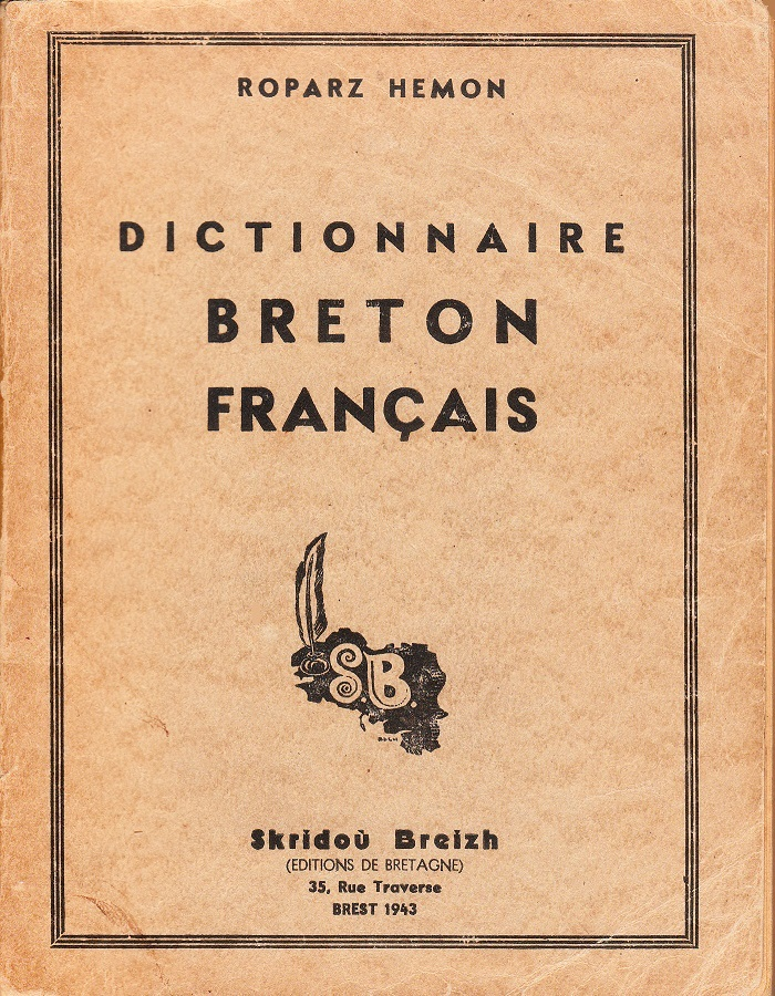 Cover of "Dictionnaire Breton-Français Roparz Hemon, first edition, 1943.